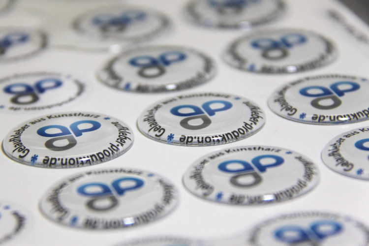 3D Stickers, Domed Decals, Gel Stickers